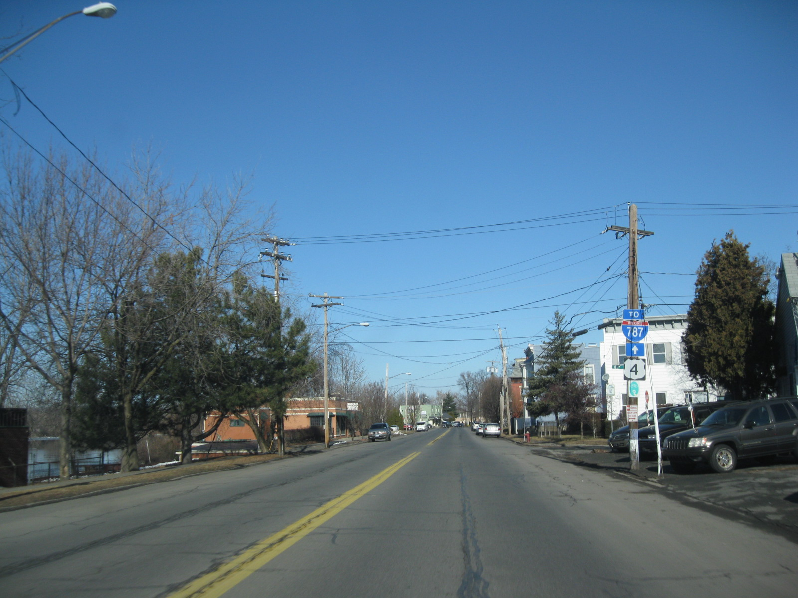 Northbound on U.S. Route 4 at 106th Street in Troy, New York. At left is the Hudson River.